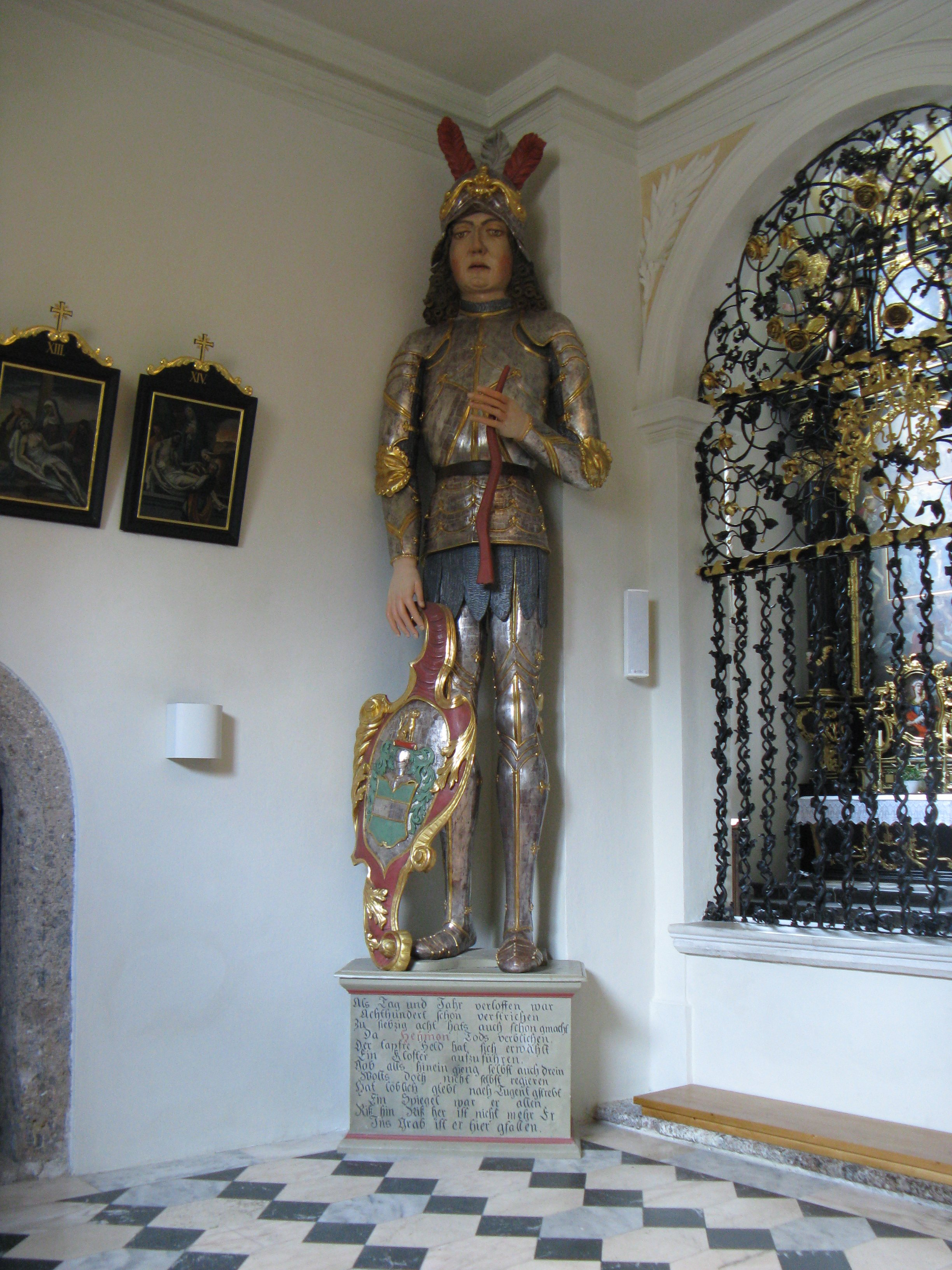 mythological giant Haymon in Stiftskirche Wilten, Innsbruck, Austria